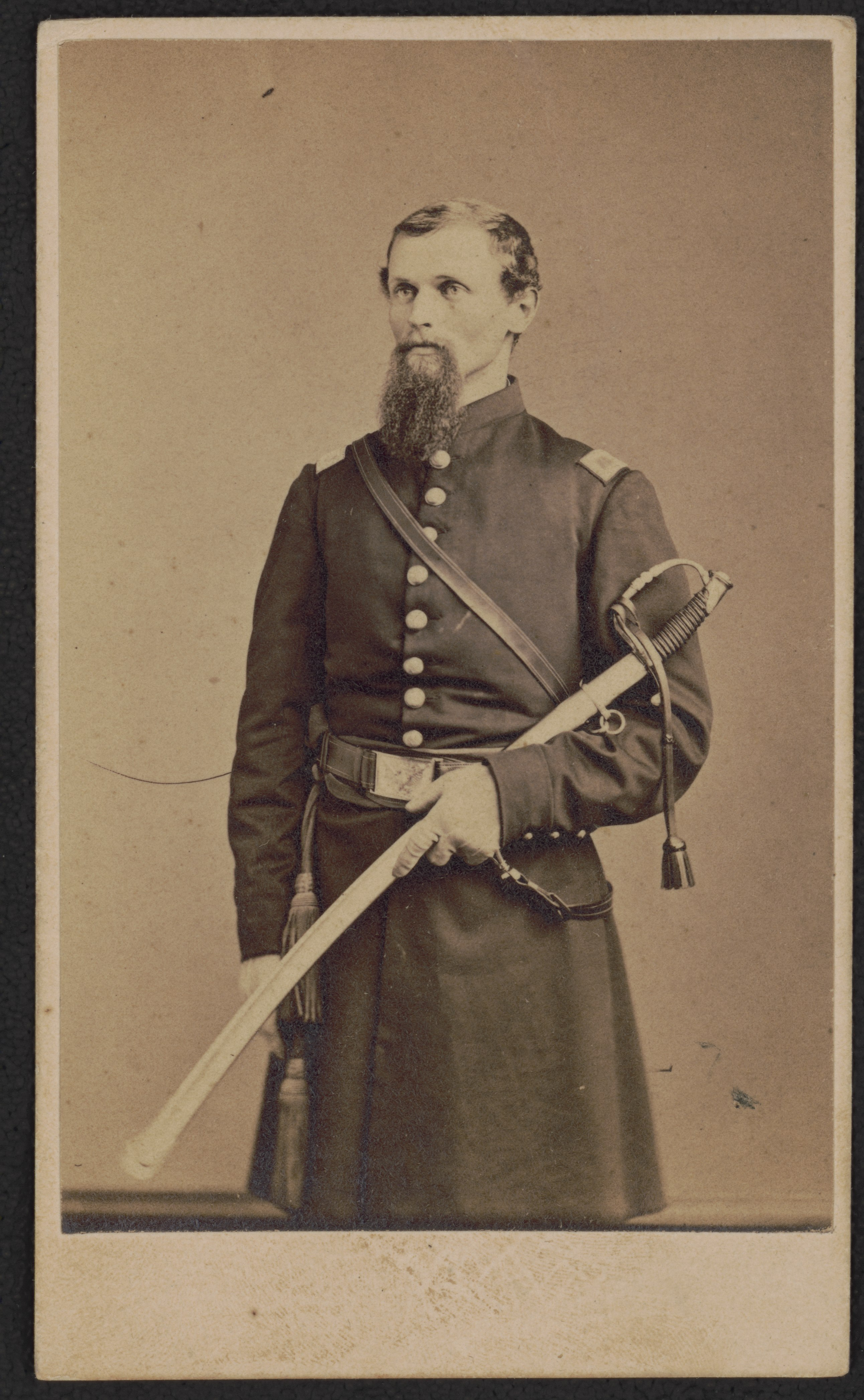 Title: Lieutenant Hillary Beyer of Co. H, 90th Pennsylvania Infantry Regiment, in uniform with sword] / F. Gutekunst, photographer, 704 & 706 Arch St., Philada Abstract/medium: 1 photograph : albumen print on card mount ; mount 11 x 7 cm (carte de visite format)